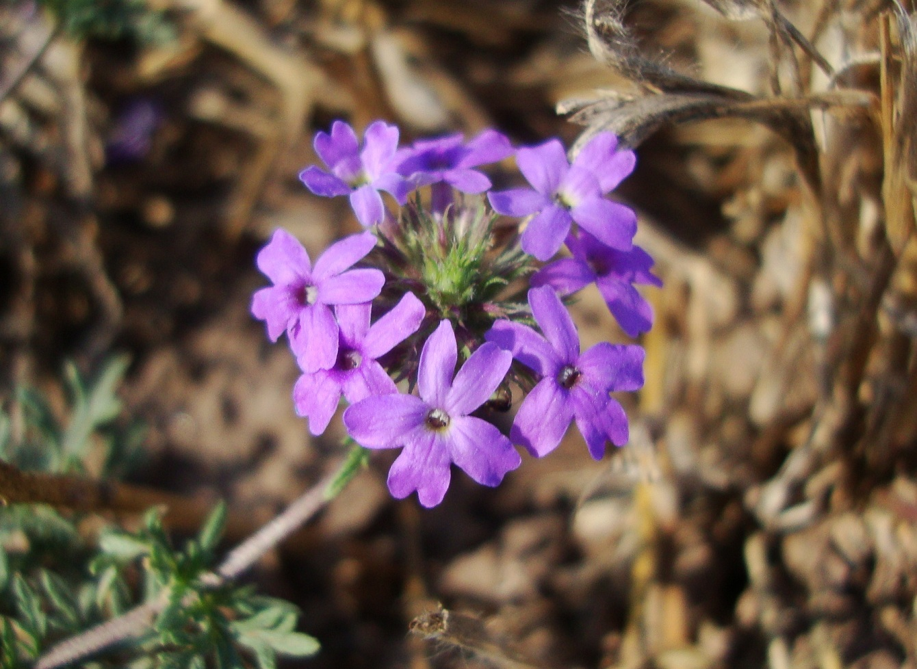 Glandularia dissecta (Willd.ex Spreng.) Schnack & Covas Flowers South America